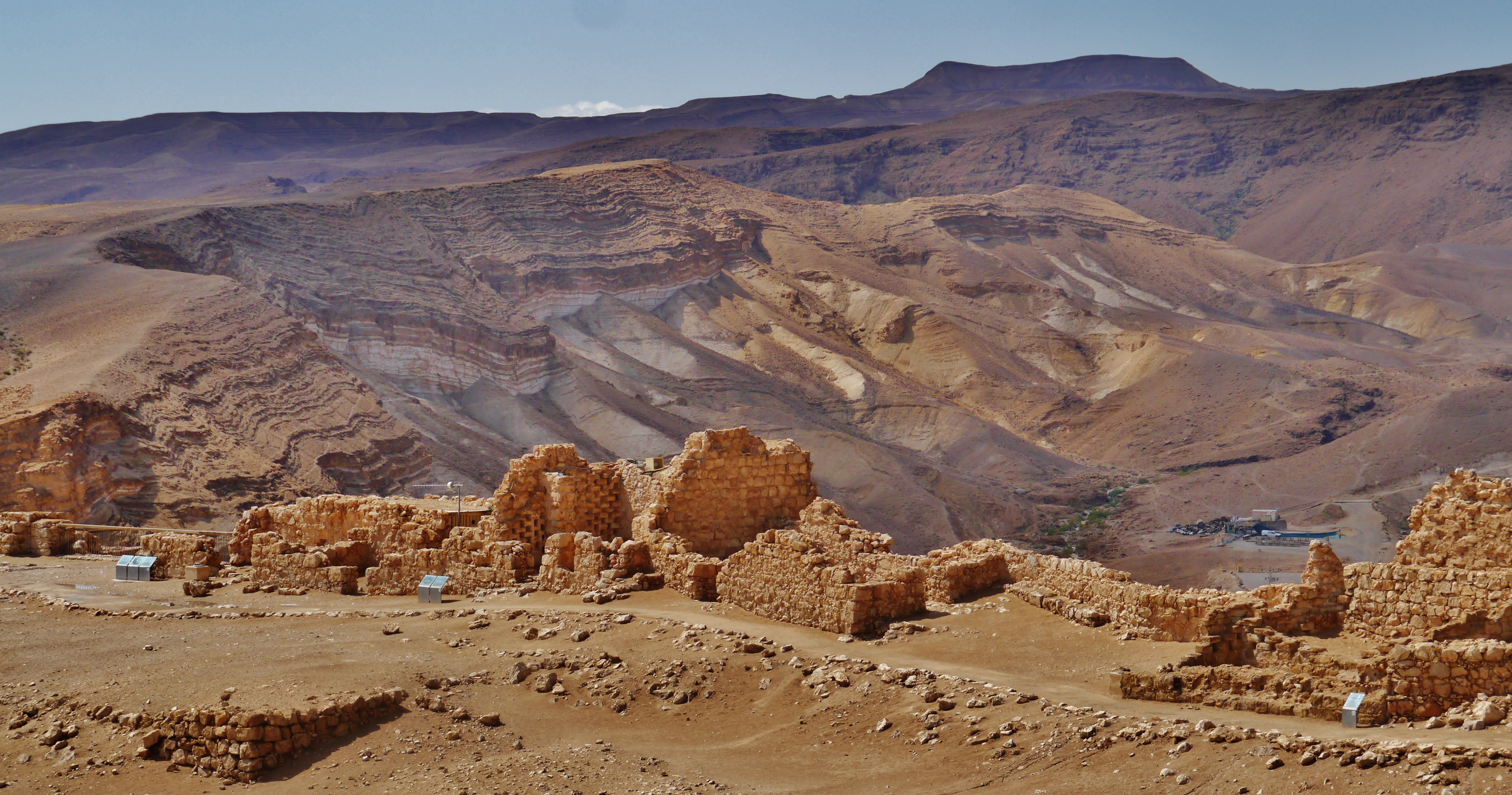 Ruins at Masada, Israel